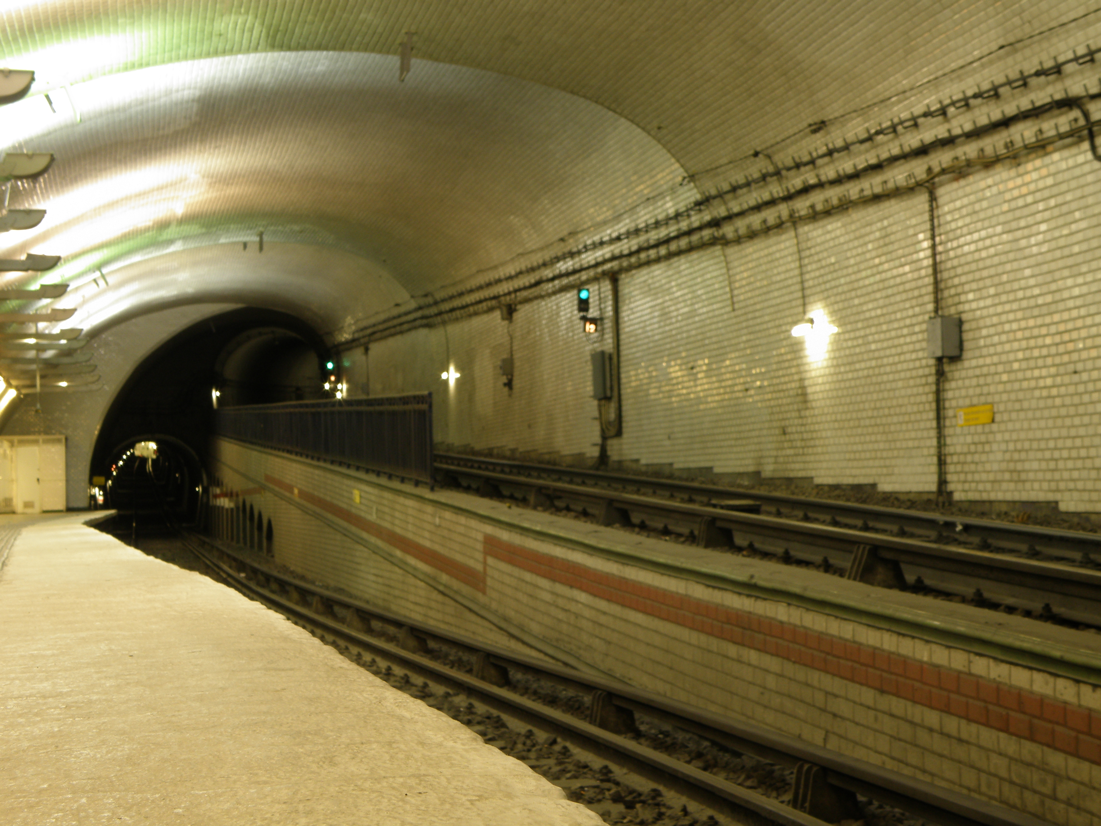 Unusual track configuration at the Mirabeau station on Line 10 of the Paris Metro.